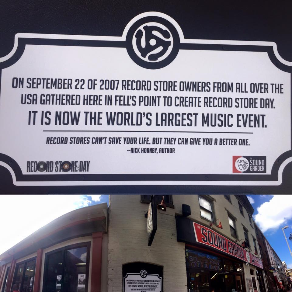 This plaque hangs outside The Sound Garden, in Fells Point, Baltimore, Maryland.